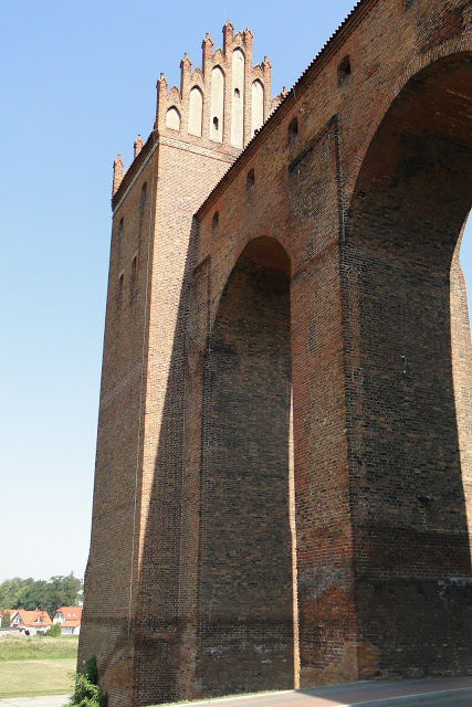 Schloss Kwidzyn